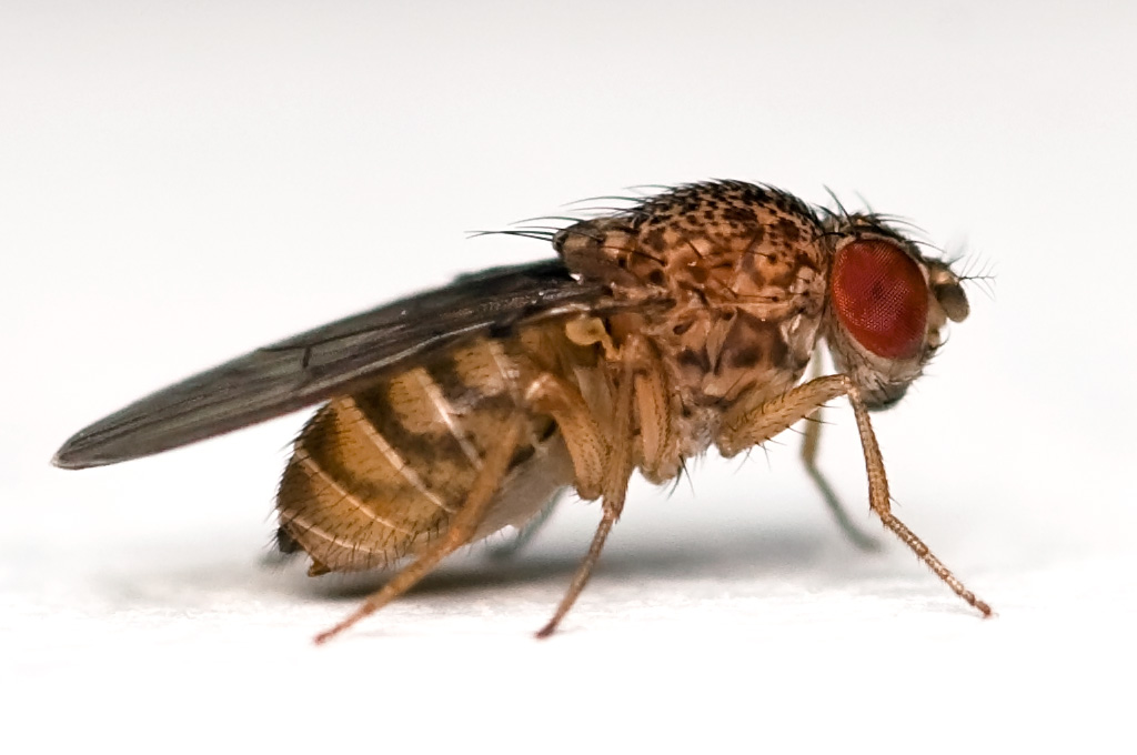 Drosophila repleta, lateral